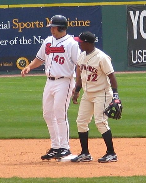 Brad Nelson, a first baseman for the minor league Nashville Sounds, being held at second base by Esteban Germán in a game at Herschel Greer Stadium on April 13, 2005